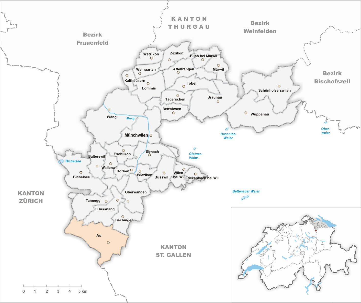 Municipality Au